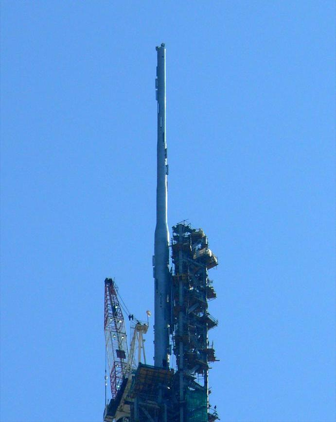 Burj Dubai close-up of spire on 2008-12-19